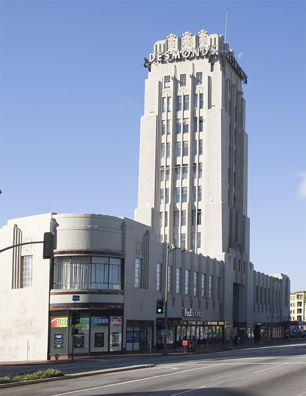 Image of Desmond's Tower at 5514 Wilshire Blvd, Los Angeles, CA 90036 as seen from Wilshire Blvd